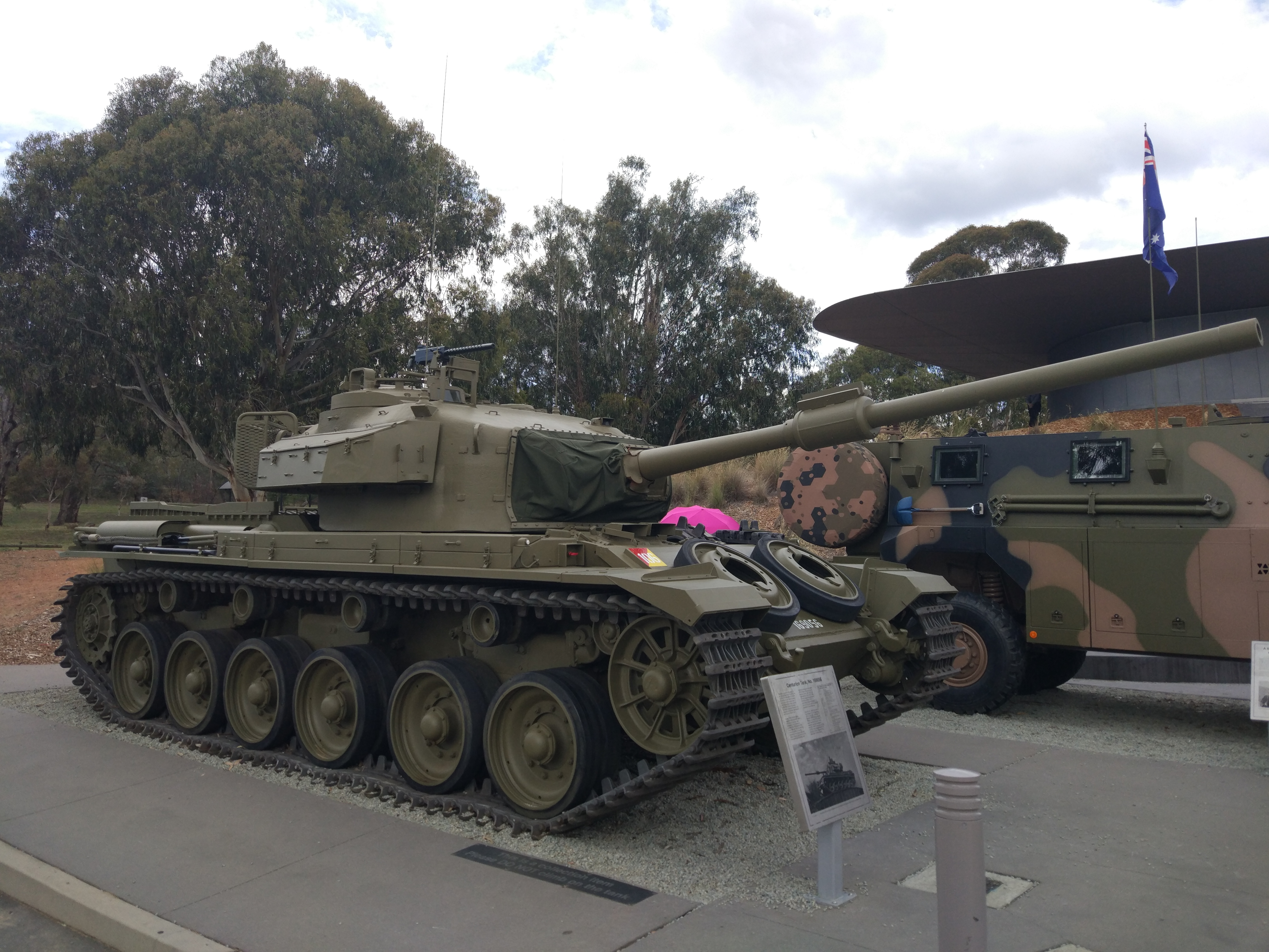 Centurion Mk.5/1 Tank at the Australian War Memorial